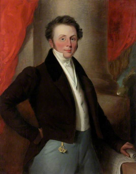 Portrait of Richard Grainger (1797-1861), a builder from Newcastle upon Tyne, England. The portrait is in Laing Art Gallery.